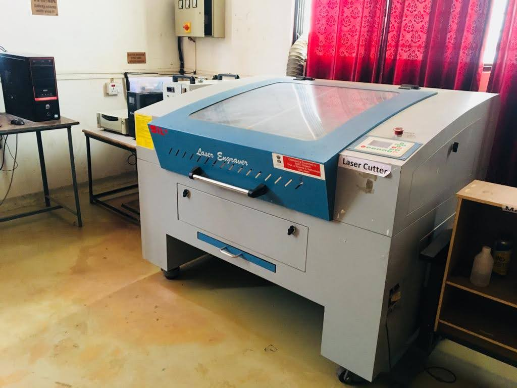 Laser Cutter